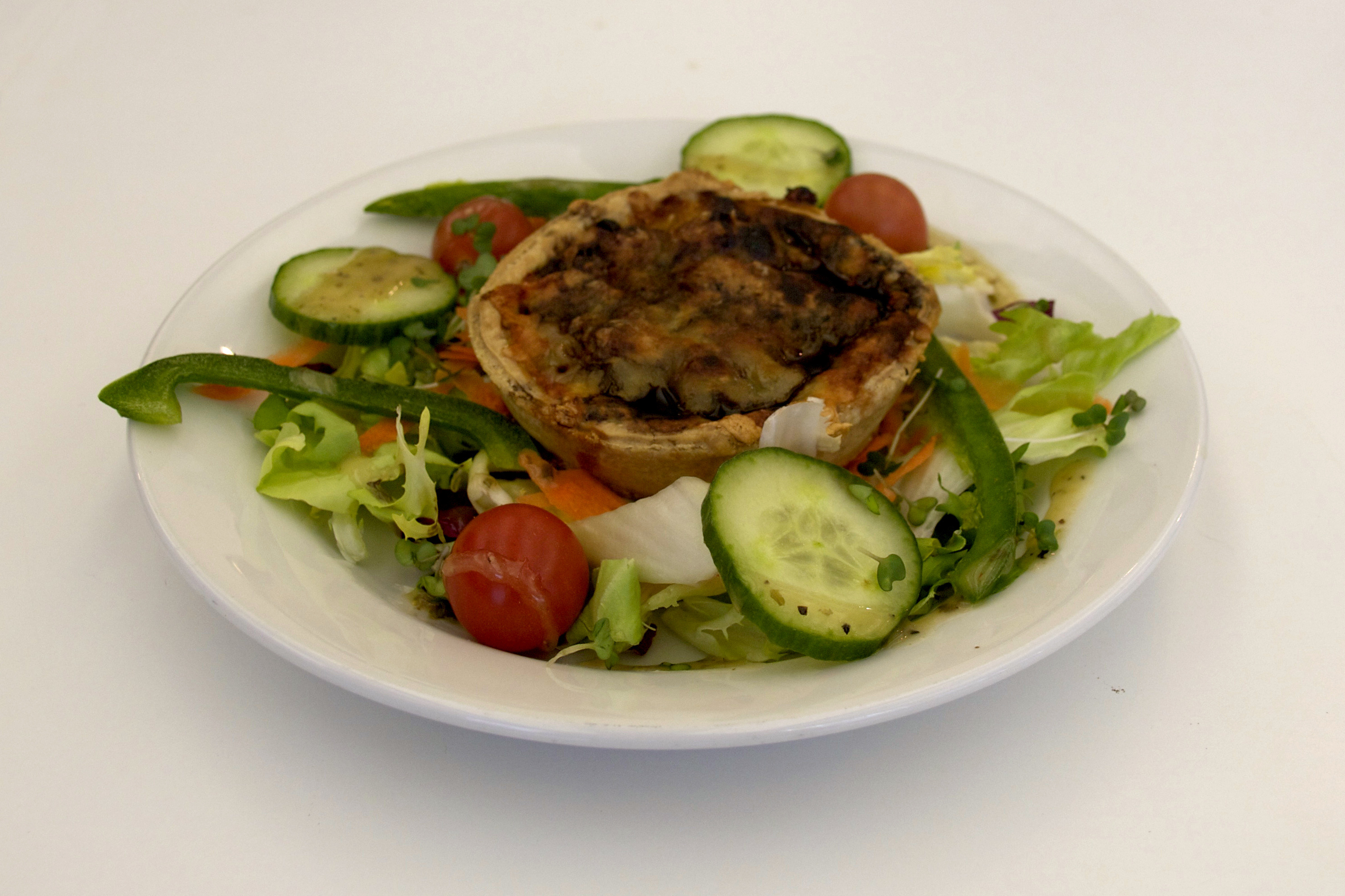 An Ymber Day or 'Ember Day' pie. Photo taken at the Wikimedia UK Executive Board Meeting at John Rylands Library in Manchester. The recipe is taken from a 14th century book in the library's possession.